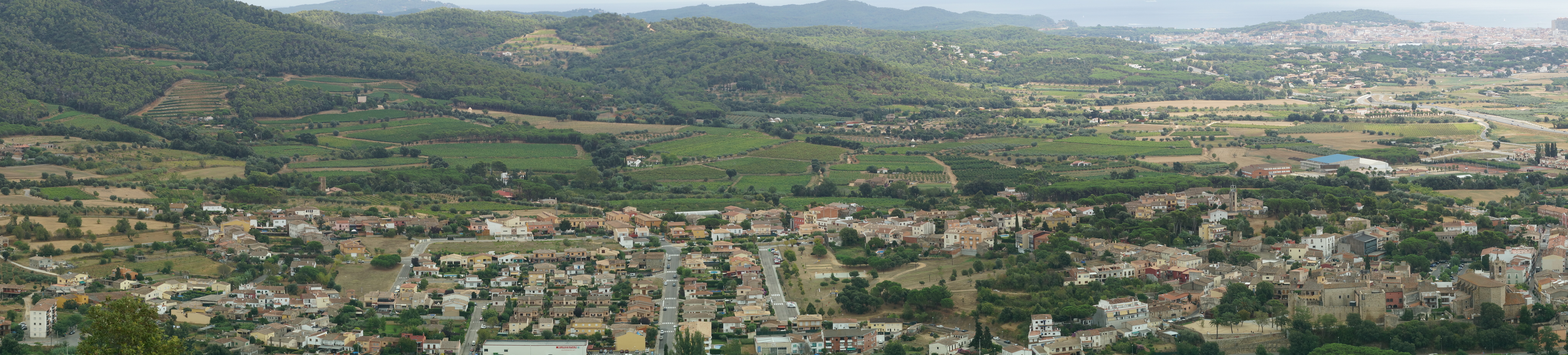 Calonge, Catalonia: Northern panorama from de ruins of Torre de la Creu del Castellar at the tip of Mount Puig de la Creu del Castellar